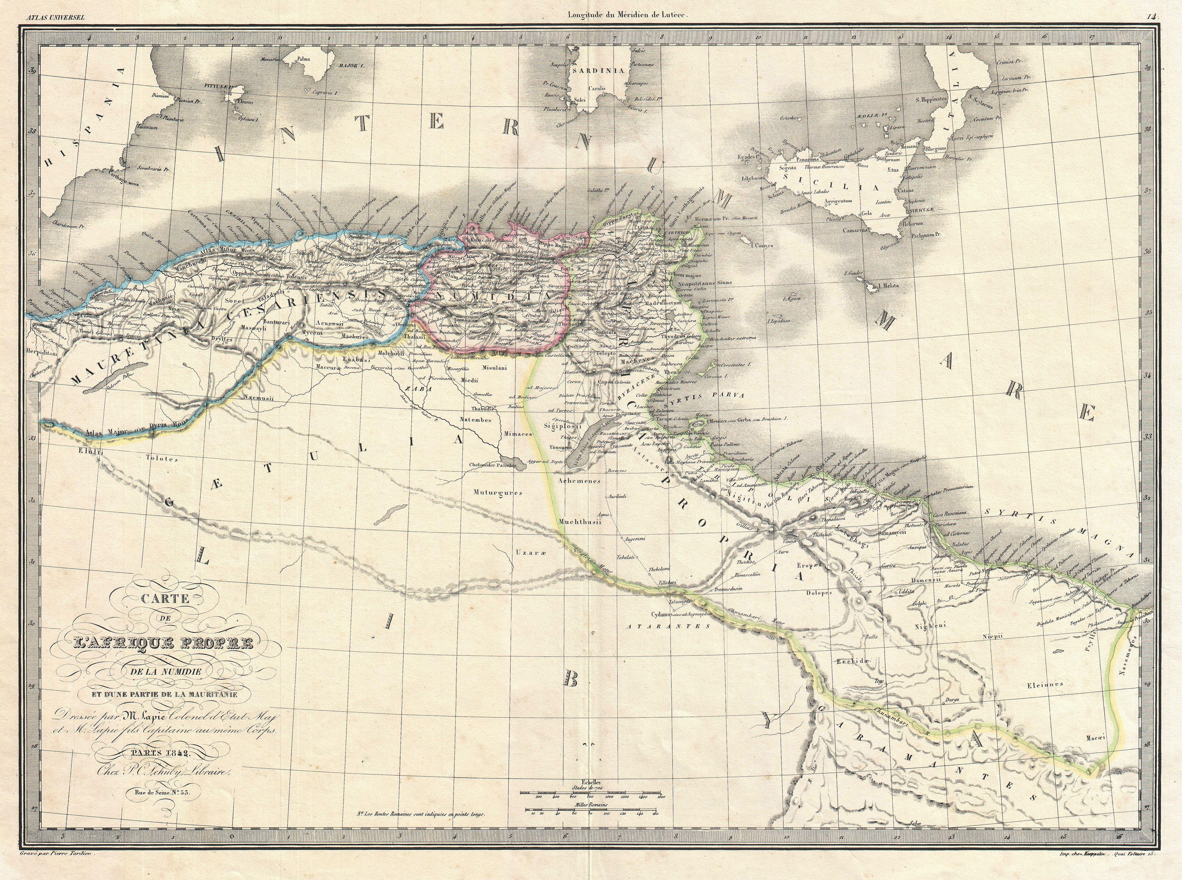 An unusual and attractive 1843 map of the ancient empires of Mauritania, Carthage, and Numidia shortly after the end of the Second Punic War. Depicts what is today known as the Barbary Coast around 190 BC. The Empire of Carthage has been annexed as a Roman Province named “Africa Propria”. Numida, to the west of Carthage retains a semi-independent status because they allied with Rome in 206BC. Still further west, the kingdom of Mauretania has been established as the Roman Province of Mauretania Casariensis. Exhibits the typical detail and scientific precision of Lapie maps. Notes various trade routes, topographical features, and Oases. Prepared by Pierre A. Tardieu as plate no. 14 for the 1843 issue of Lapie’s Atlas Universel de Geographie Ancienne et Moderne.